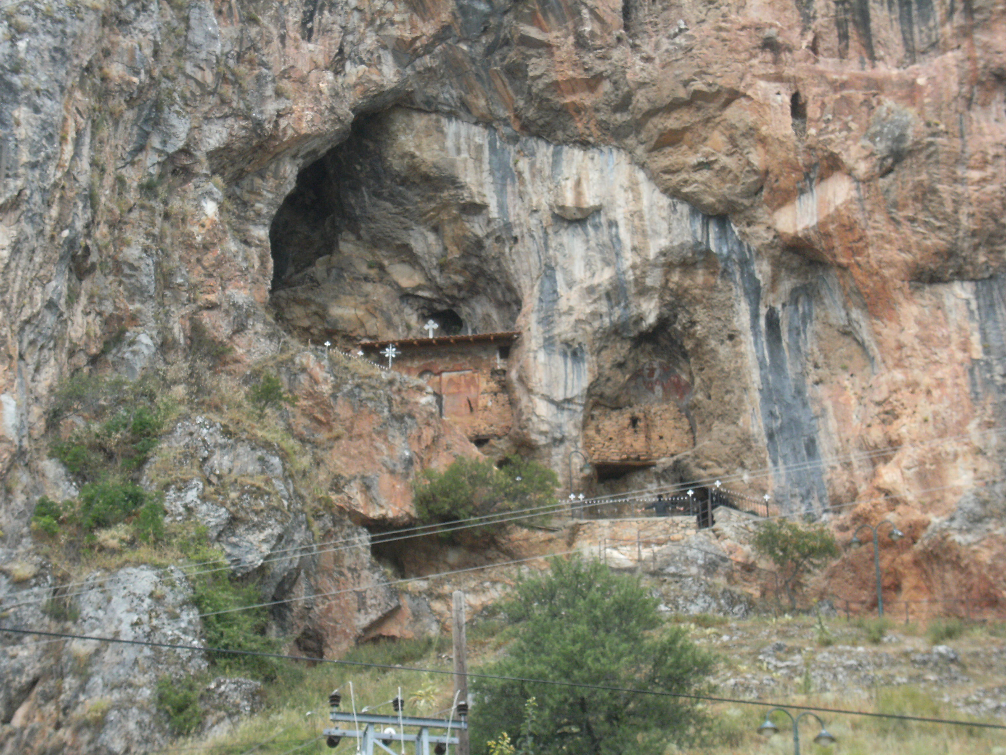 The Rock Church in the village Radožda, Macedonia